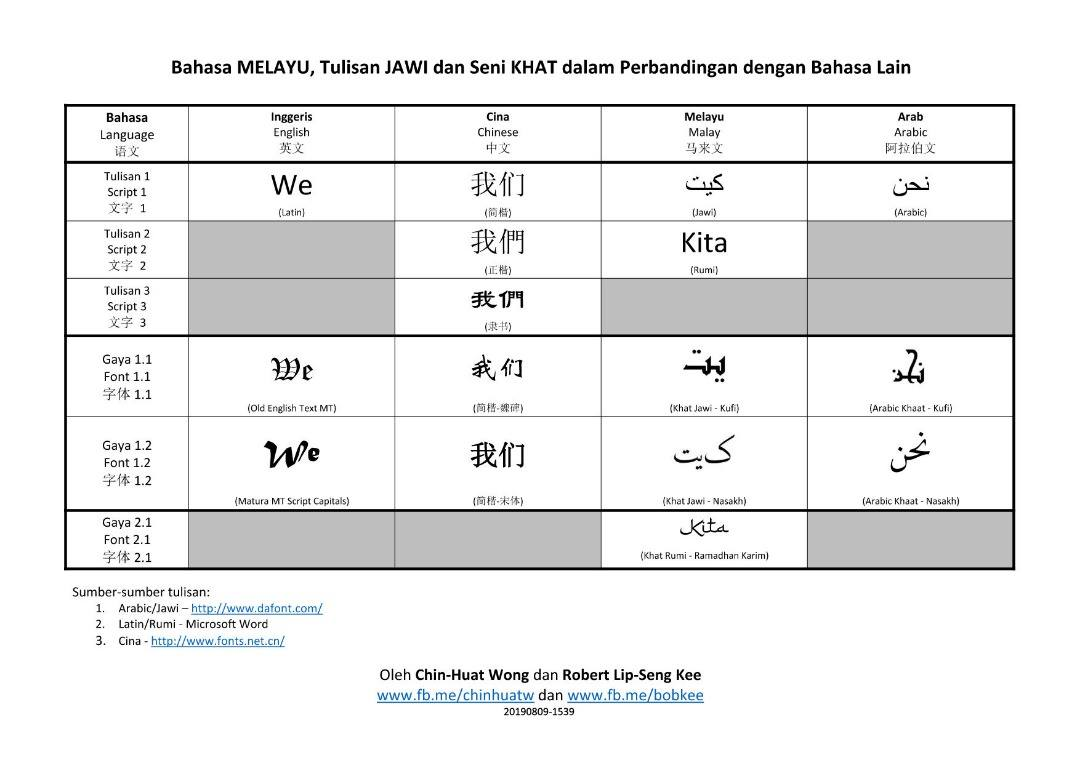 Camparison of writing systems and languages in Malaysia in response to controversy about introduction of Khat in education syllabus. Distinguishes English, Chinese, Malays, and Arab languages with their writing systems and typography (font).